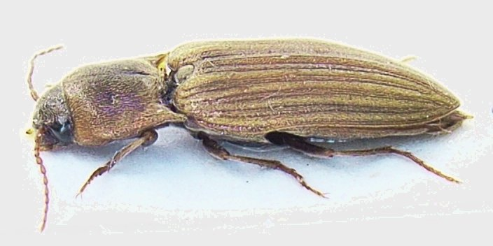 Side of Agriotes lineatus